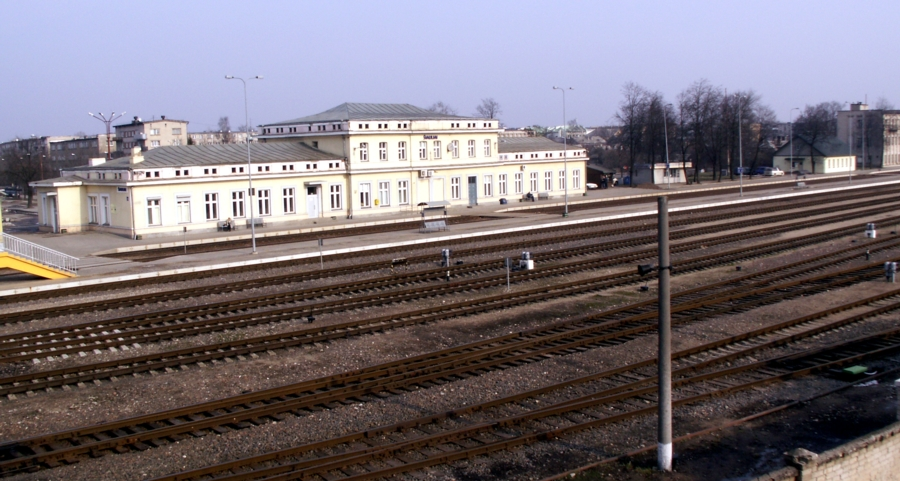 Šiauliai train station, Lithuania